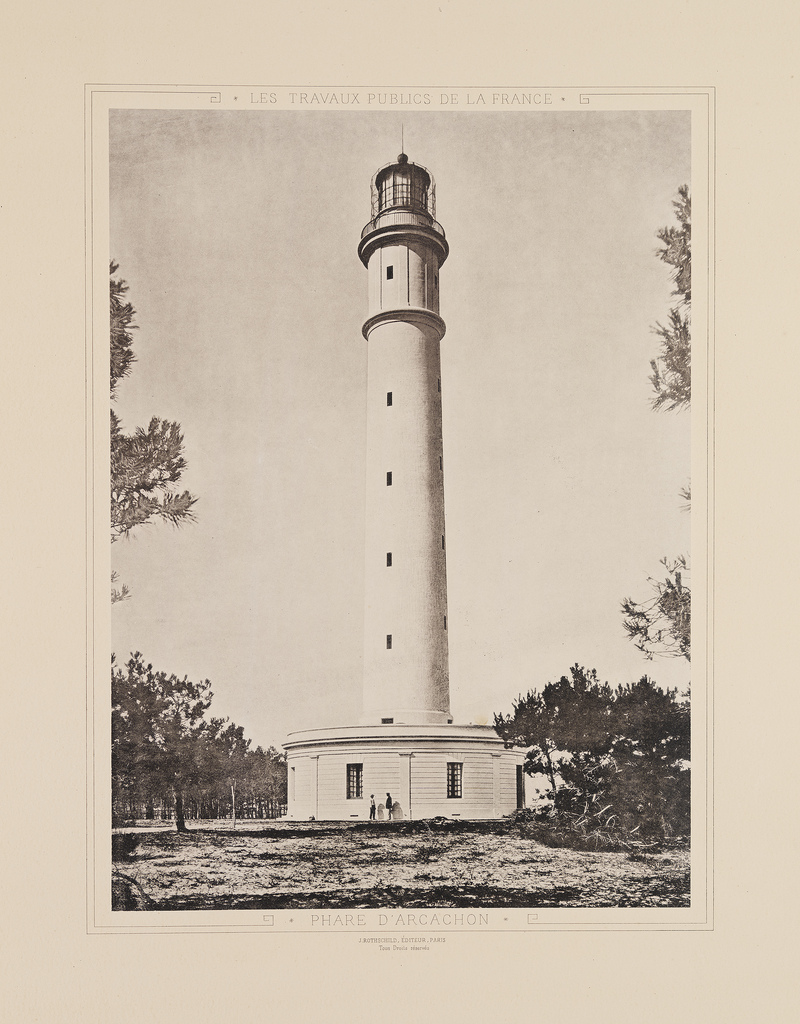 Title: Phare d'Arcachon Alternative Title: Arcachon Lighthouse Creator: Unknown Date: 1883 Series: Tome Cinquieme: Phares et Balises Place: Lege-Cap-Ferret, Gironde, France Description: The full title of the five-volume set is, Les travaux publics de la France par MM. F. Lucas et V. Fournie - Ed. Collignon - H. de Lagrene - Voisin Bey - E. Allard. Ouvrage publie sous les auspices de Ministere des travaux publics et sous la direction de M. Leonce Reynaud. This photograph is one of 50 plates in Public Works of France, Volume Five: Lighthouses and Beacons. Physical Description: 1 photographic print: collotype; 35 x 26 cm on 56 x 40 cm mount File: vault_folio_2_ta71_a4_1883_5_45_opt.jpg Rights: Please cite DeGolyer Library, Southern Methodist University when using this file. A high-resolution version of this file may be obtained for a fee. For details see the web page. For other information, . For more information, View the